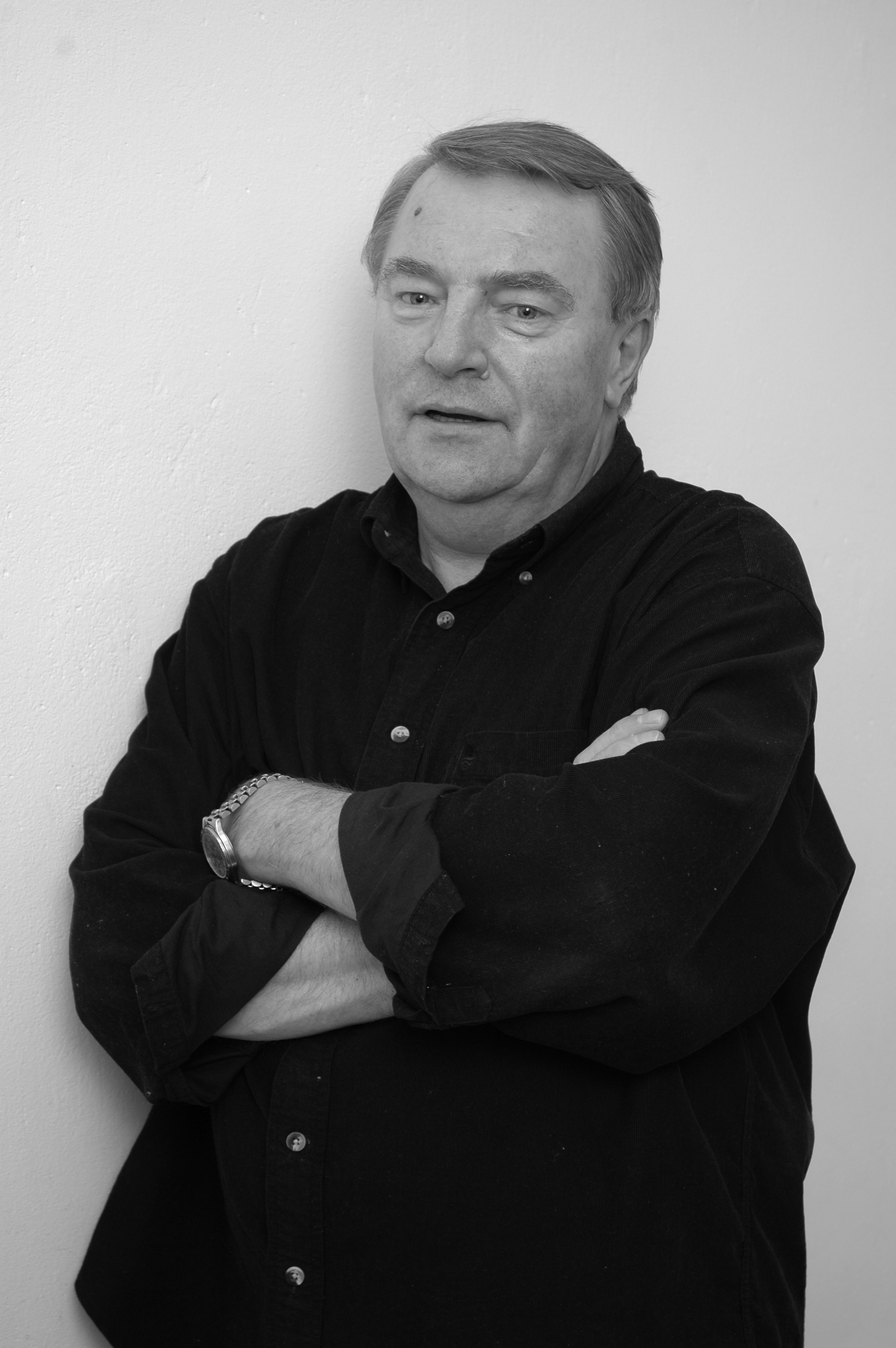 Wolf Roehner, Industrial-Designer, *1944